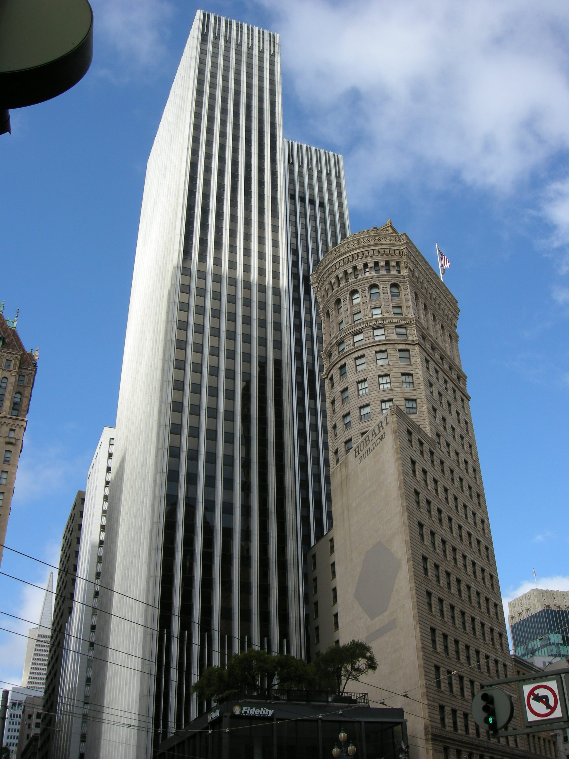 Hobart Building 01 e 44 Montgomery Street